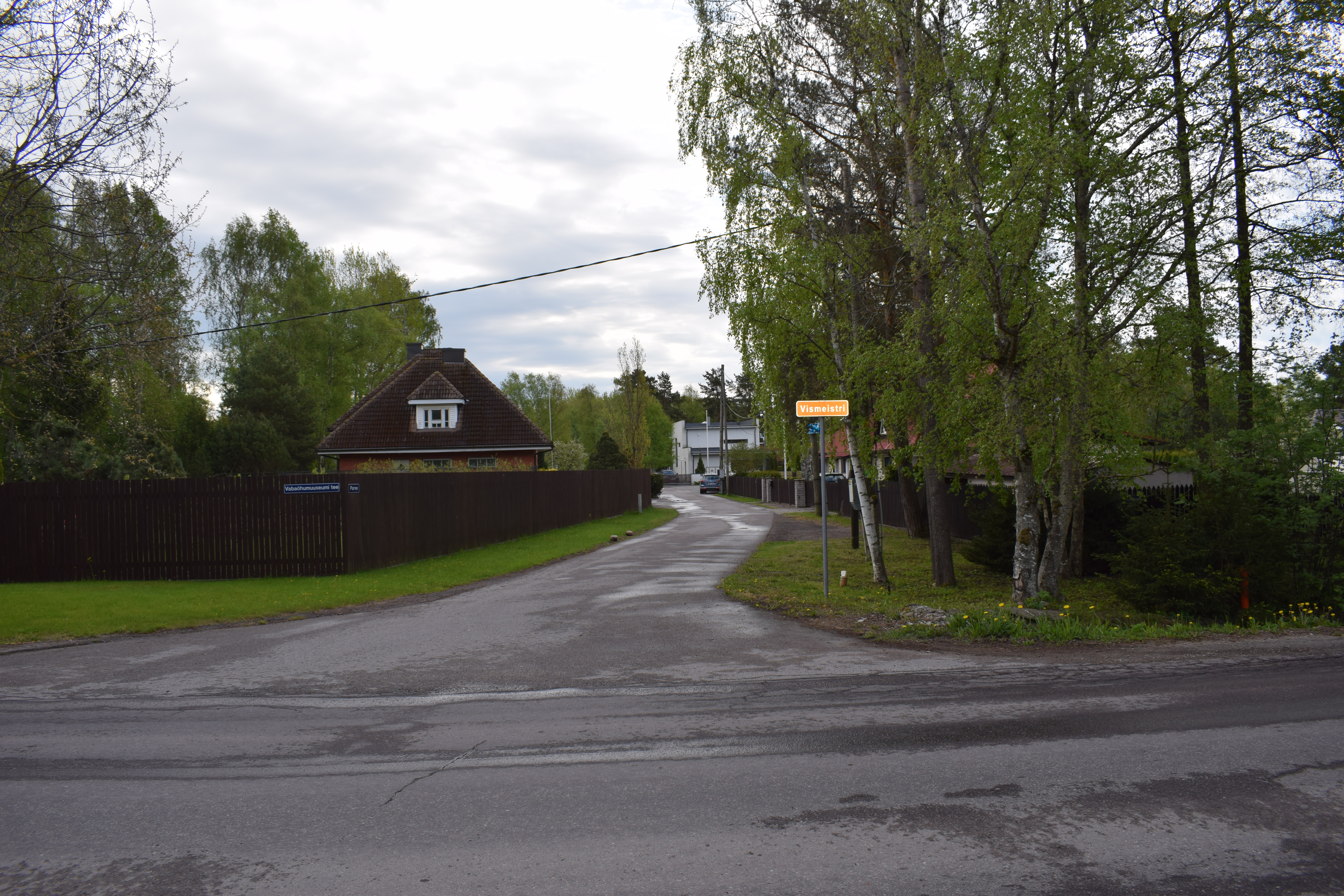 Parve street